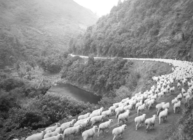 Description: Waioeka Gorge, Auckland Province - 2,600 sheep on the road, Waioeka Gorge, after a 60 mile drive. Waioeka is situated between Gisborne and Opotiki Photographer: Unknown Date: Unknown Our reference: AAQT 6539 A1478 This photo is from Archives New Zealand's National Publicity Studio's collection. The National Publicity Studio was established in 1945, but its beginnings can be traced back to the establishment in 1924 of a Publicity Office - part of the Department of Internal Affairs. The emphasis of this Publicity Office was on films, photographs and booklets. The purpose of the National Publicity Studio was to provide advice to government departments and state agencies on the provision of photographic, art, and display services and in particular to assist in the production of publicity material aimed at conveying a favourable image of New Zealand.